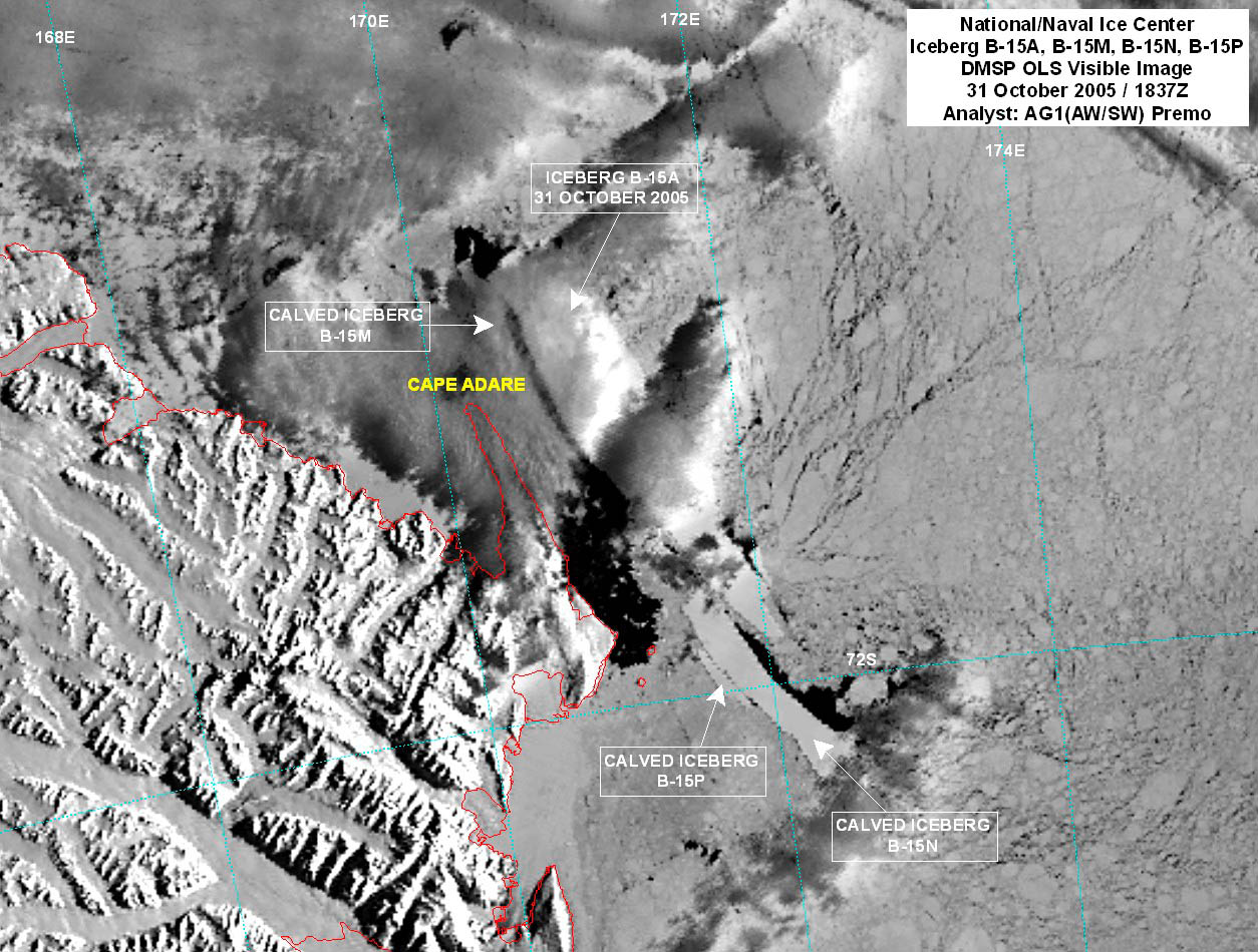 An iceberg about the size of the Hawaiian island of Maui has split into three pieces in the frigid Antarctic waters, the National Ice Center reported this week. Using satellite imagery from the Defense Meteorological Satellite Program, the NIC discovered that the larger iceberg, named B-15A, calved into three smaller icebergs: B-15M, B-15N and B-15P. Two of the larger icebergs (B-15M and B-15N) are about the size of Grand Cayman and St. Croix, respectively.